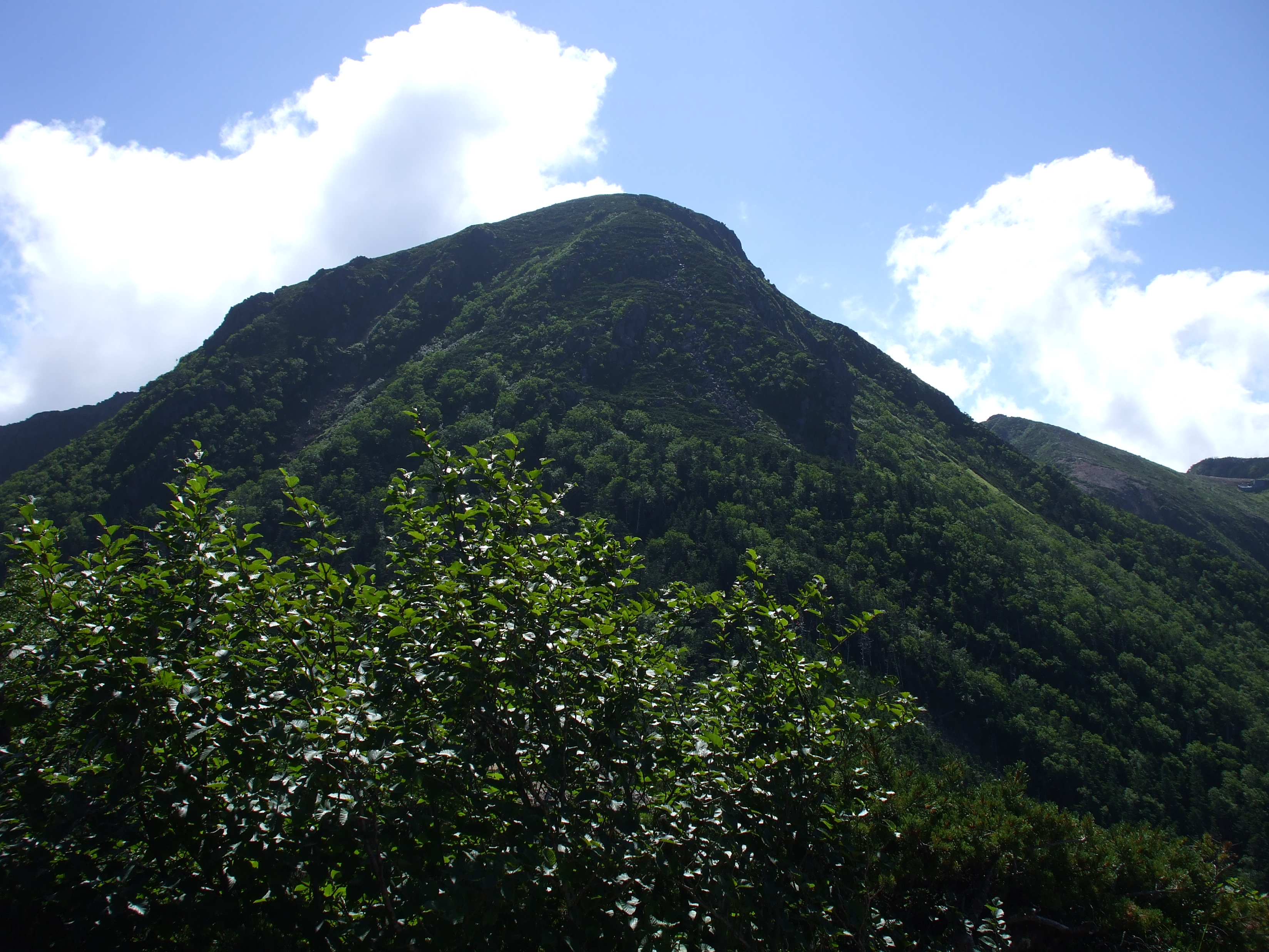 Mount Tengu,Yatsugatake Mountains, Honshu, Japan.